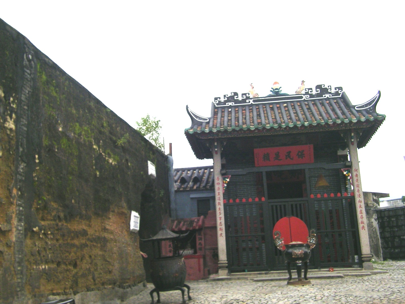 This is shot by User:Macanese馬交人 This is Na Tcha Temple, one of the building of Macao Historic Centre, which is the 31st World Heritages of China, in Macau. Besides the temple is the section of the Old City Wall of Macau.